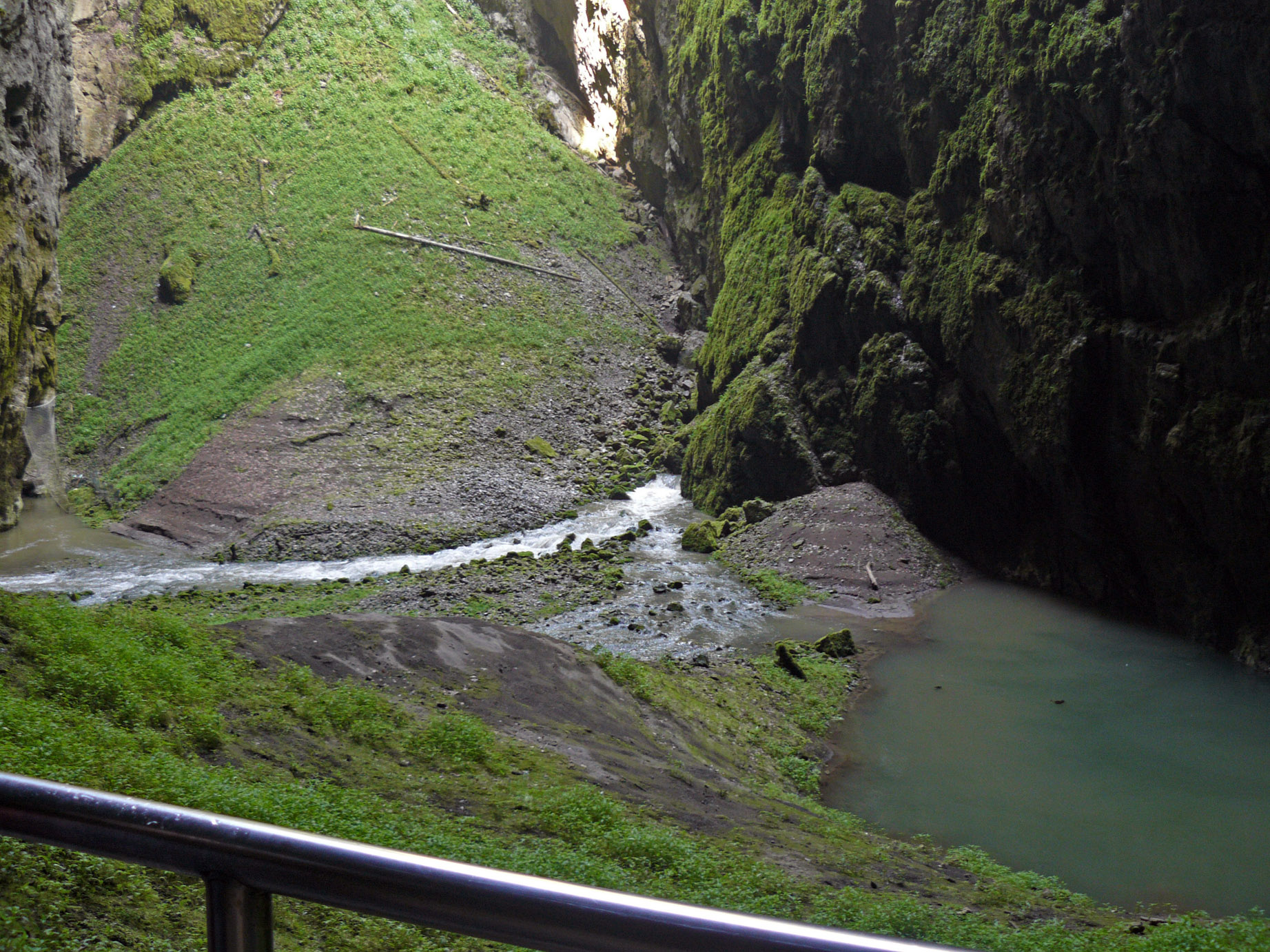 At the bottom of Macocha